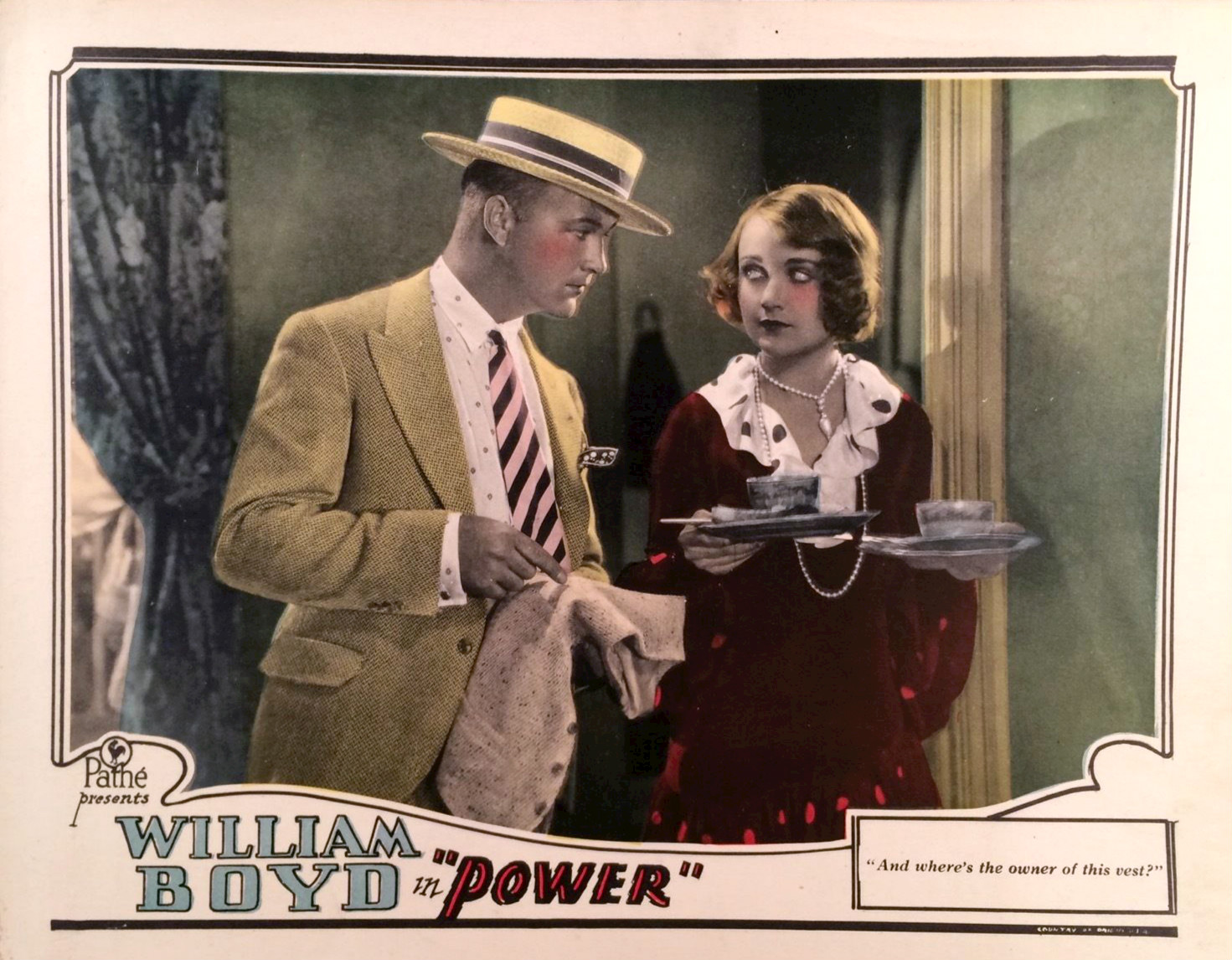 Lobby card for the American comedy film Power (1928). There are no copyright marks on the card. At bottom right is Country of origin USA.